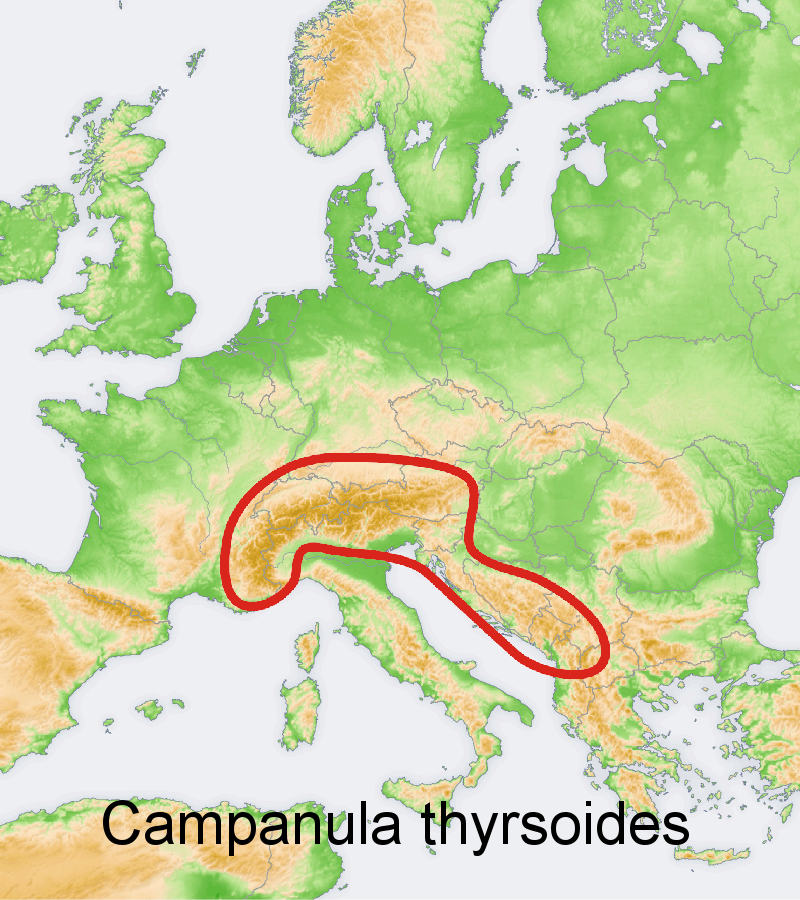 Distribution map of some species of genus Campanula in Europe and near east Try - according to information about the natural distribution given in the wikipedia articles (en, de, fr, ru, es).